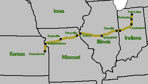 A map showing the Potowatomie Trail of Death, created by modifying an commons map